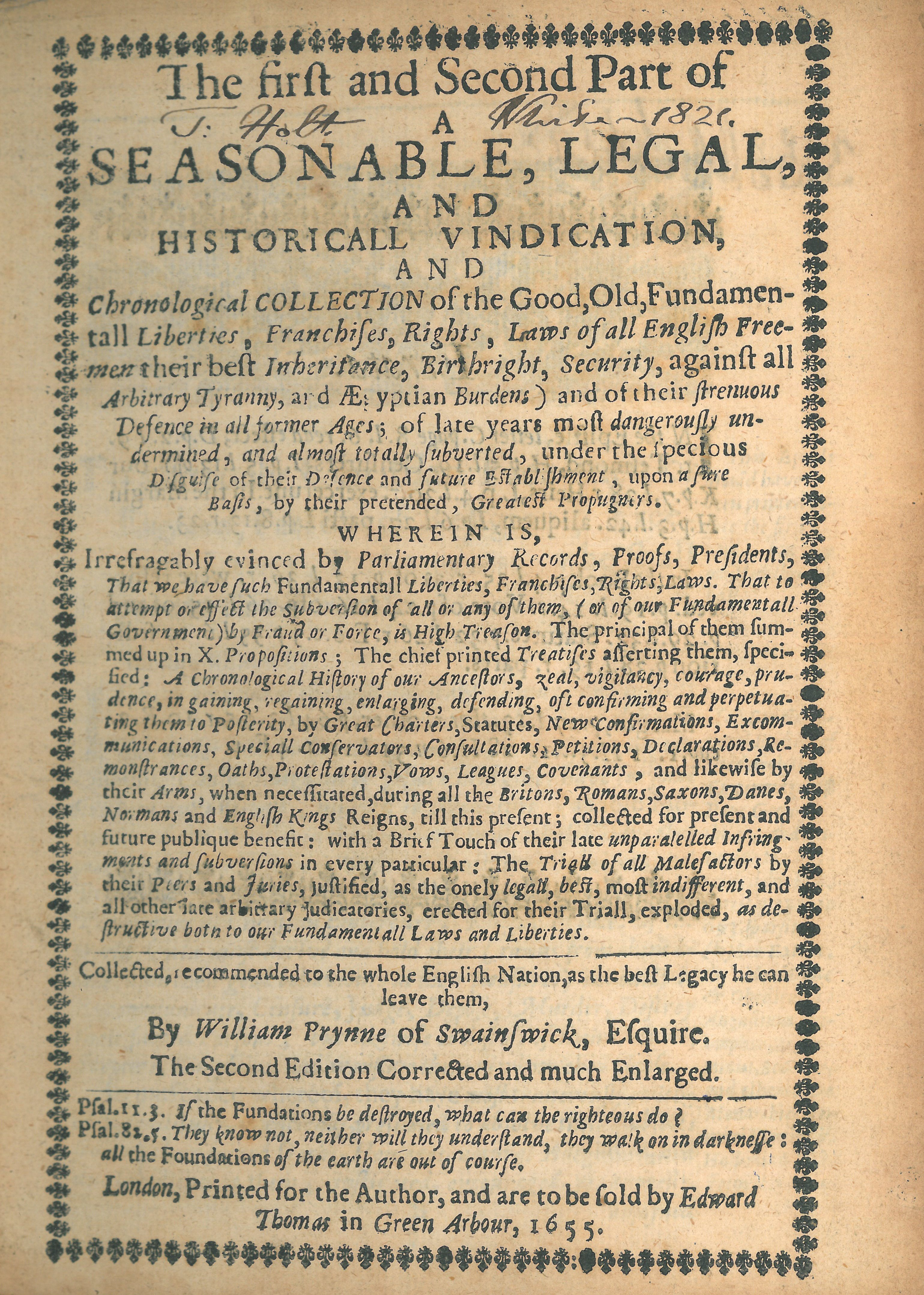 The title page of the First and Second Part of the book William Prynne (1655) The First and Second Part of a Seasonable, Legal, and Historicall Vindication, and Chronological Collection of the Good, Old, Fundamentall Liberties, Franchises, Rights, Laws of All English Freemen Their Best Inheritance, Birthright, Security, against All Arbitrary Tyranny, and Ægyptian Burdens) and of Their Strenuous Defence in All Former Ages; of Late Years Most Dangerously Undermined, and almost Totally Subverted, under the Specious Disguise of Their Defence and Future Establishment, upon a Sure Basis, by Their Pretended, Greatest, Propugners. Wherein is, Irrefragably Evinced by Parliamentary Records, Proofs, Presidents, that We Have such Fundamentall Liberties, Franchises, Rights, Laws. That to Attempt or Effect the Subversion of All or Any of Them, (or of Our Fundamentall Government) by Fraud or Force, is High Treason. [...] Collected, Recommended to the Whole English Nation, as the Best Legacy He Can Leave Them, by William Prynne of Swainswick, Esquire, 2nd edition, London: Printed for the author, and are to be sold by Edward Thomas in Green Arbour, OCLC 15871789.